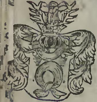 Nałęcz сoat of arms from Kronika polska